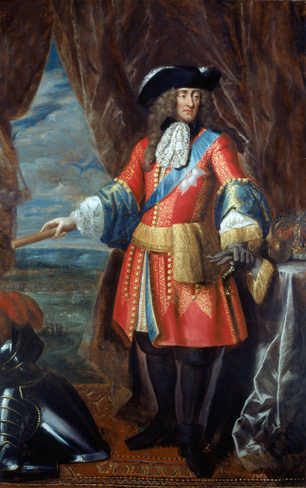 King James II (1633-1701) portrayed in his role as head of the Army, wearing a General Officer's State coat